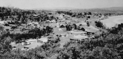 From: A site advertising a book for sale on the history of Terrigal. Photo is of the Terrigal CBD in the 1920's.